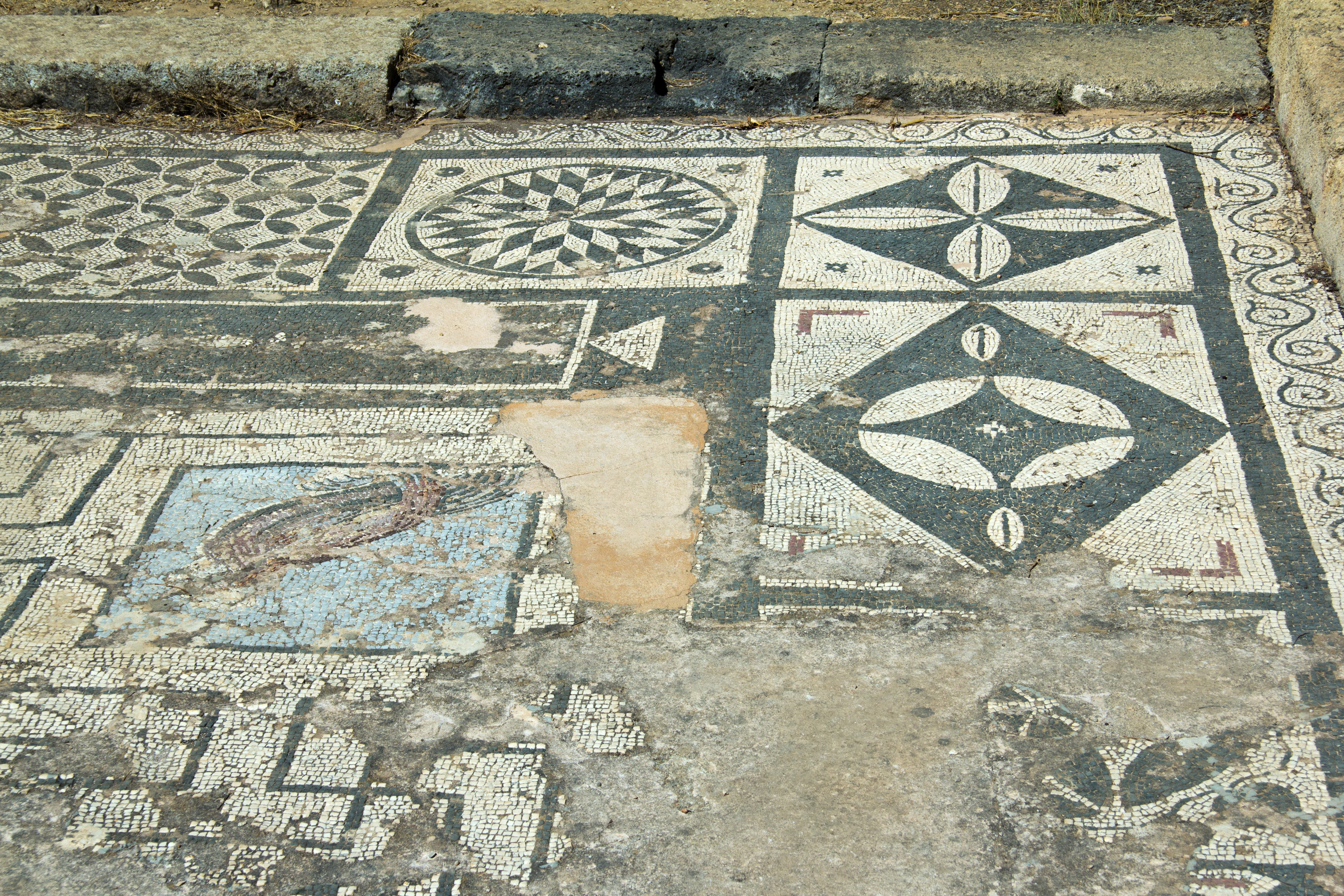 The Temple of Asclepius. Floor mosaic, Roman time. Lissos, Crete.